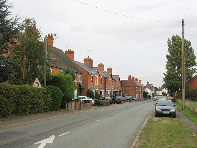 Salford Priors, South. The southern approach to Salford Priors from Harvington, looking north.